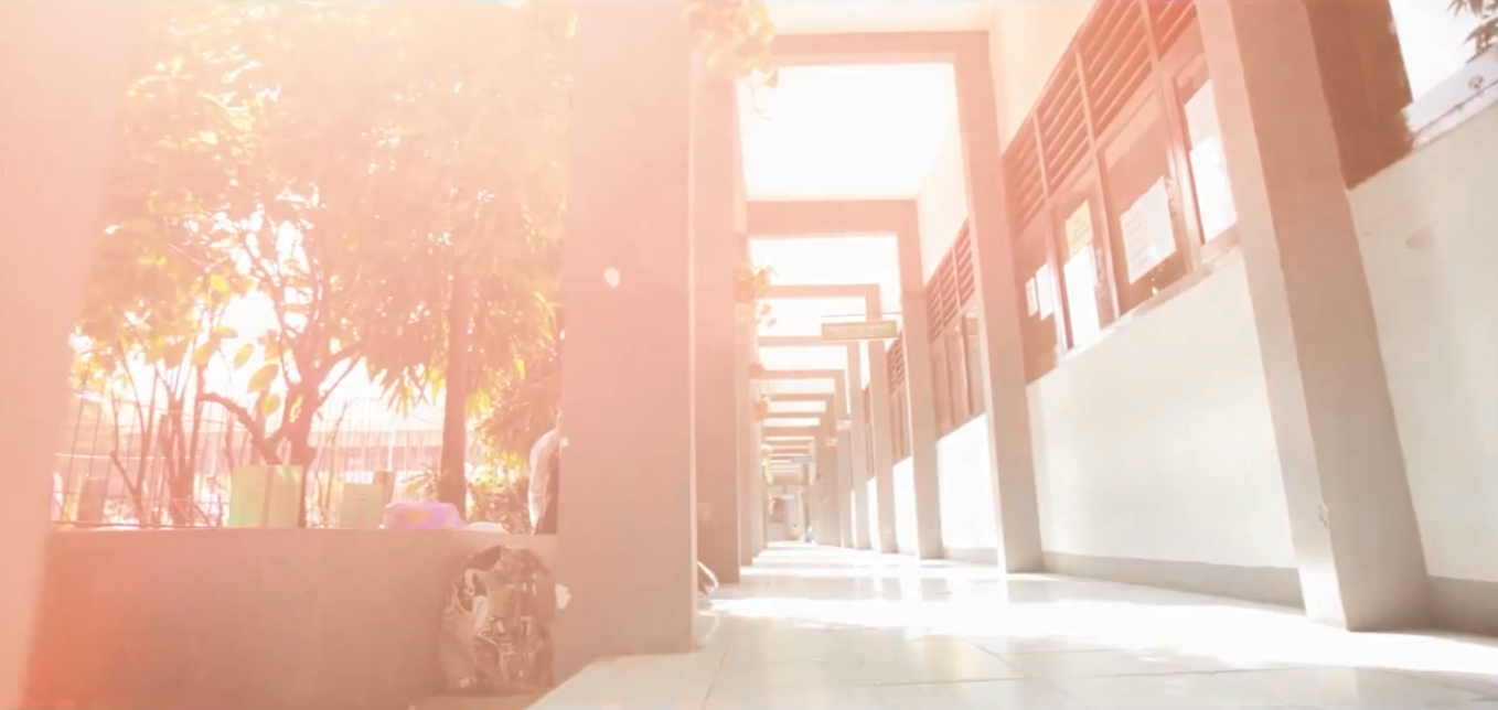 hallway of sman 7 tangerang